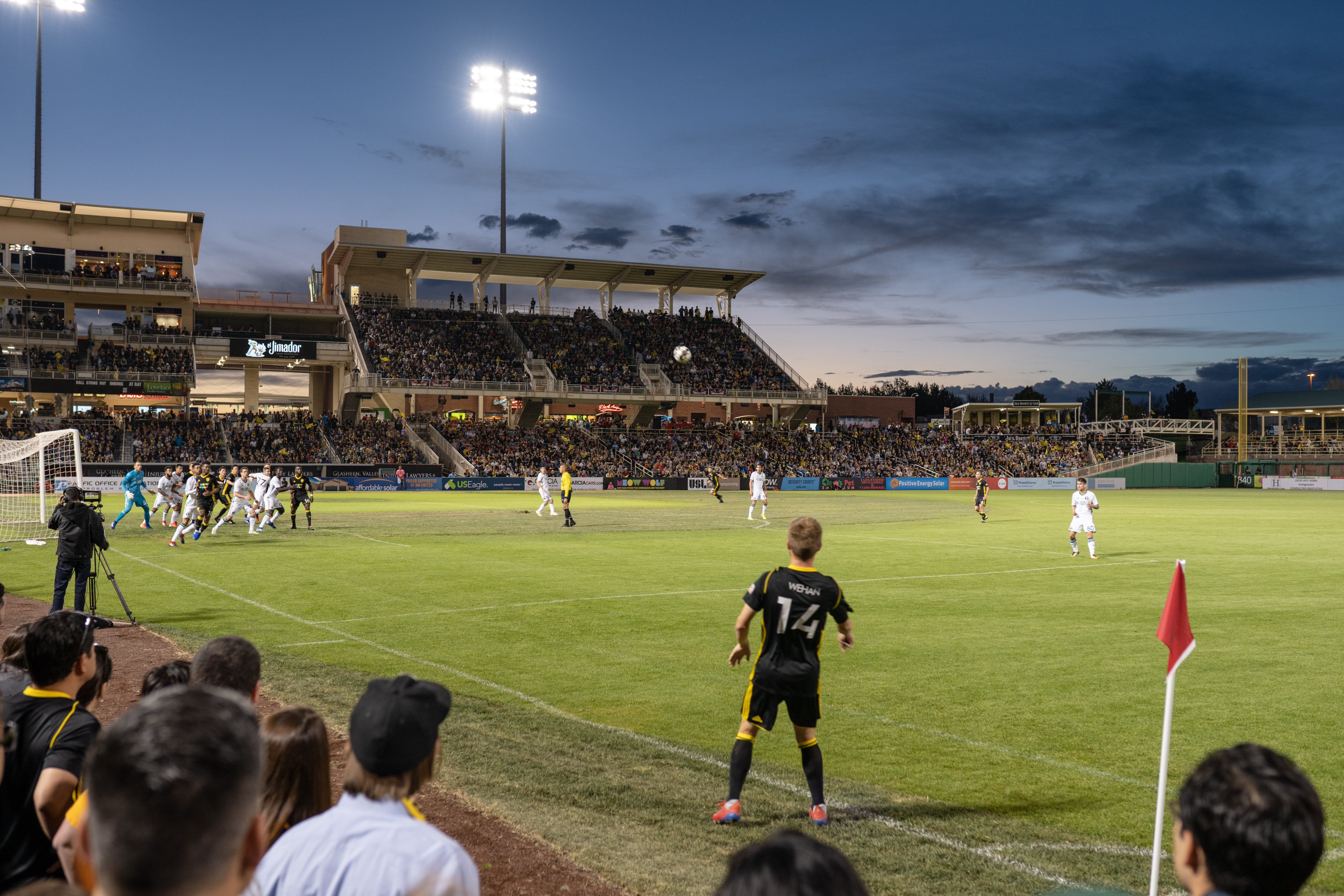 Chris Wehan sends in a corner kick vs. Portland Timbers 2 on April 26, 2019 during New Mexico United's inaugural season